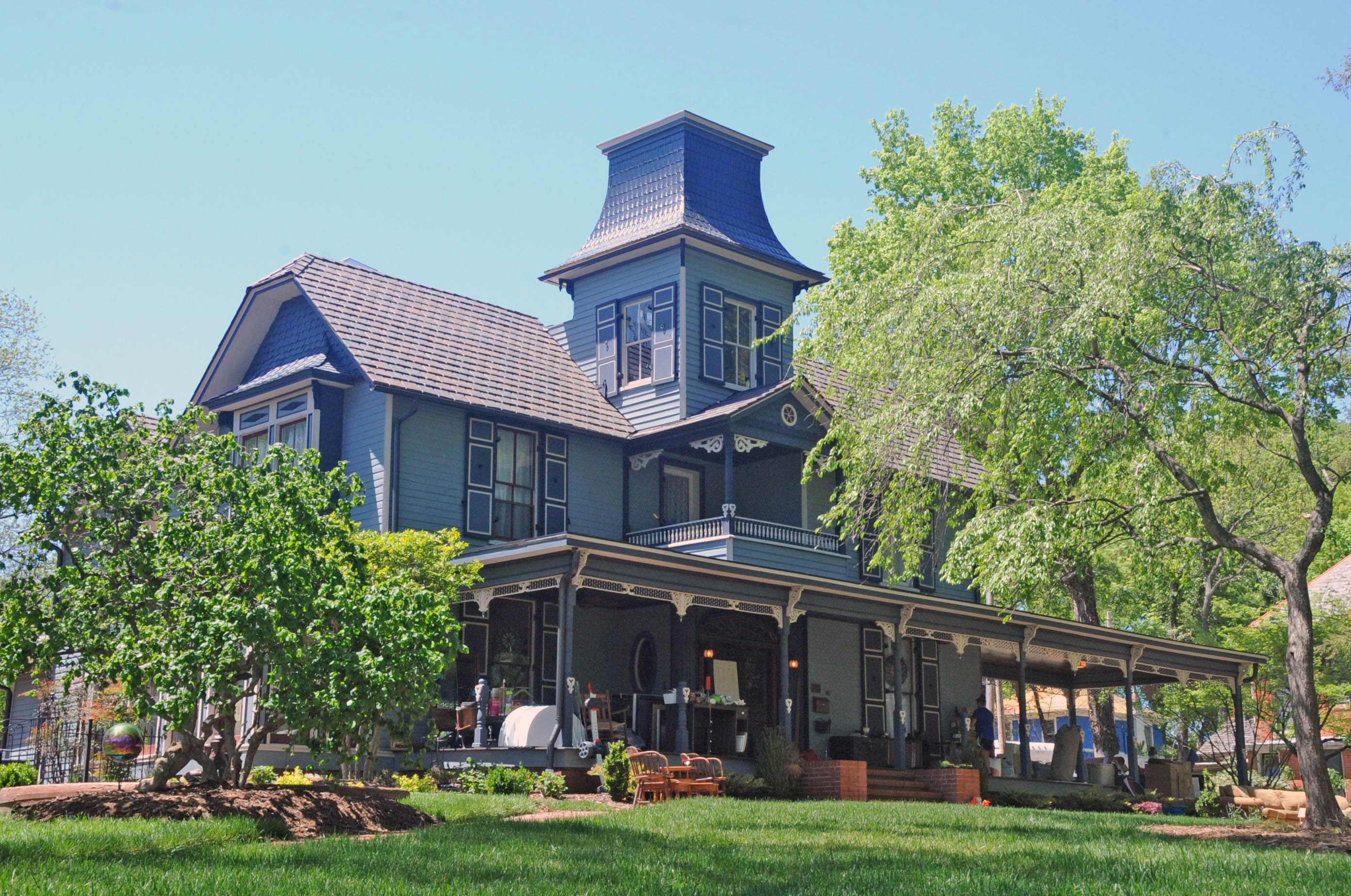 1878; Second Empire House built for Steele who was the patriarch of Steele and Sons, a brickmaking and brick machine making firm that still operates nearby.